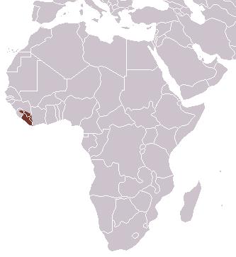 Bourlon's Genet (Genetta bourloni) range